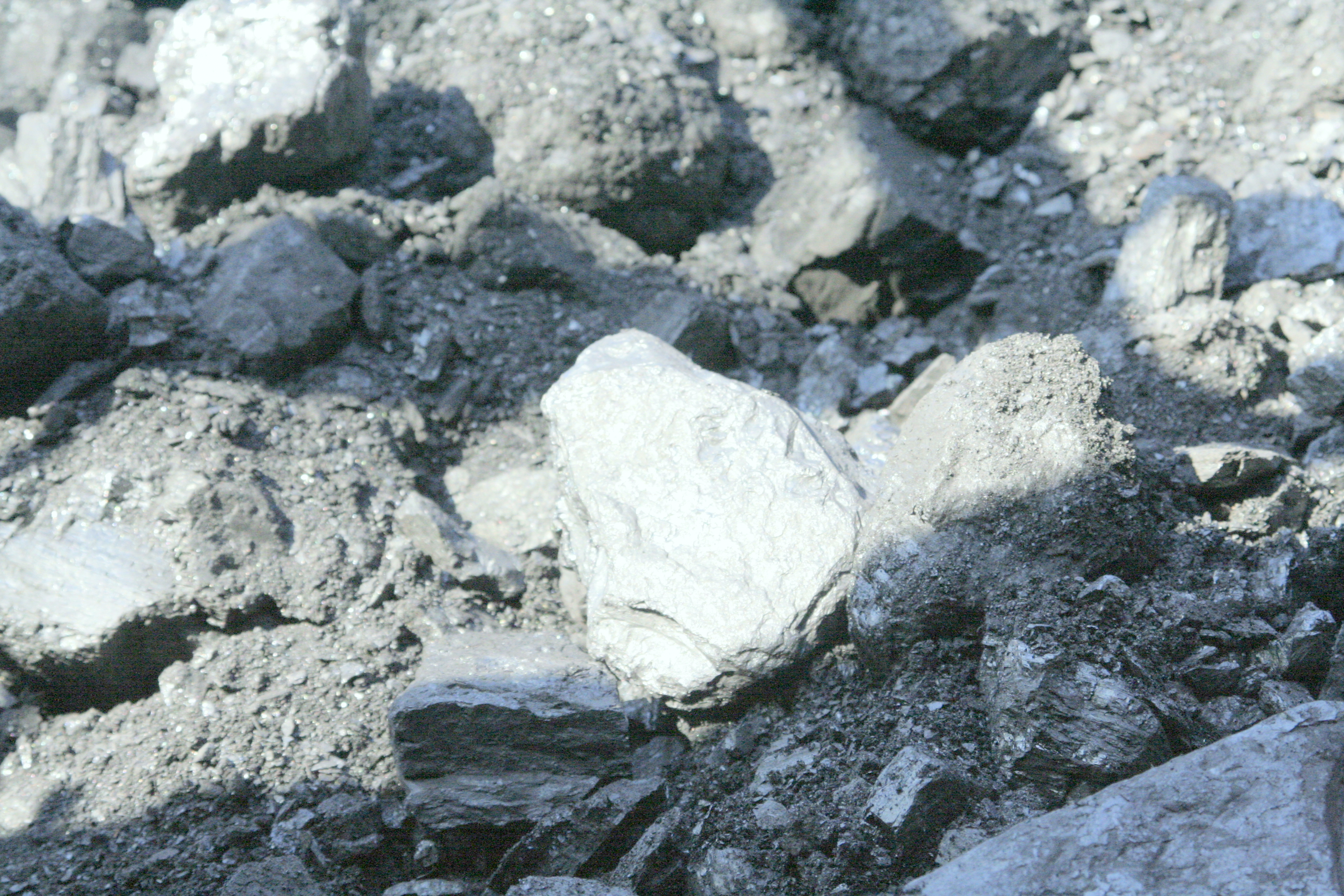 Coal in a Hr1 #1009 steam locomotive tender Canon EOS 350D, Sigma DG 28-70mm 1:2.8 EX